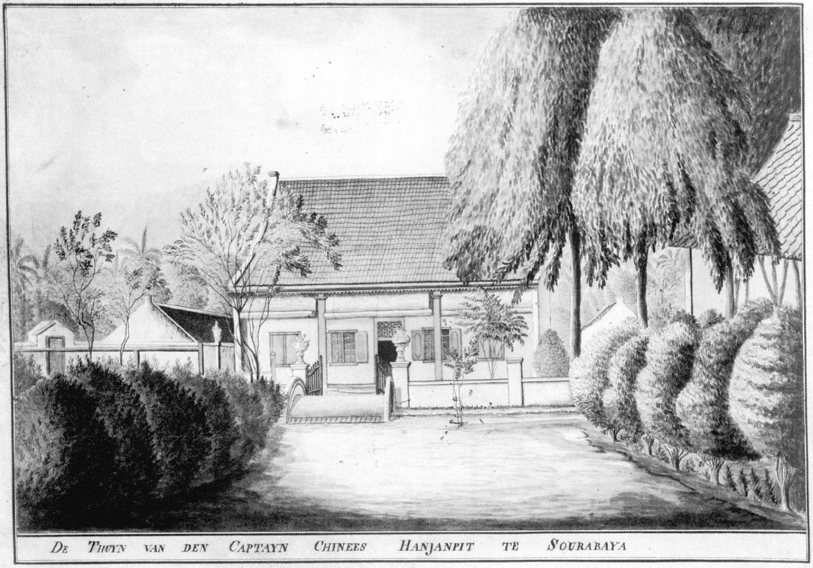 An engraving of the country house of Han Chan Piet, Majoor der Chinezen, south of Surabaya (Collection Nicolaus Engelhardt)